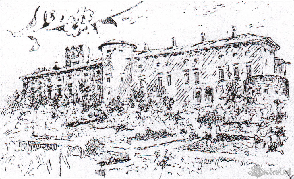 Laško